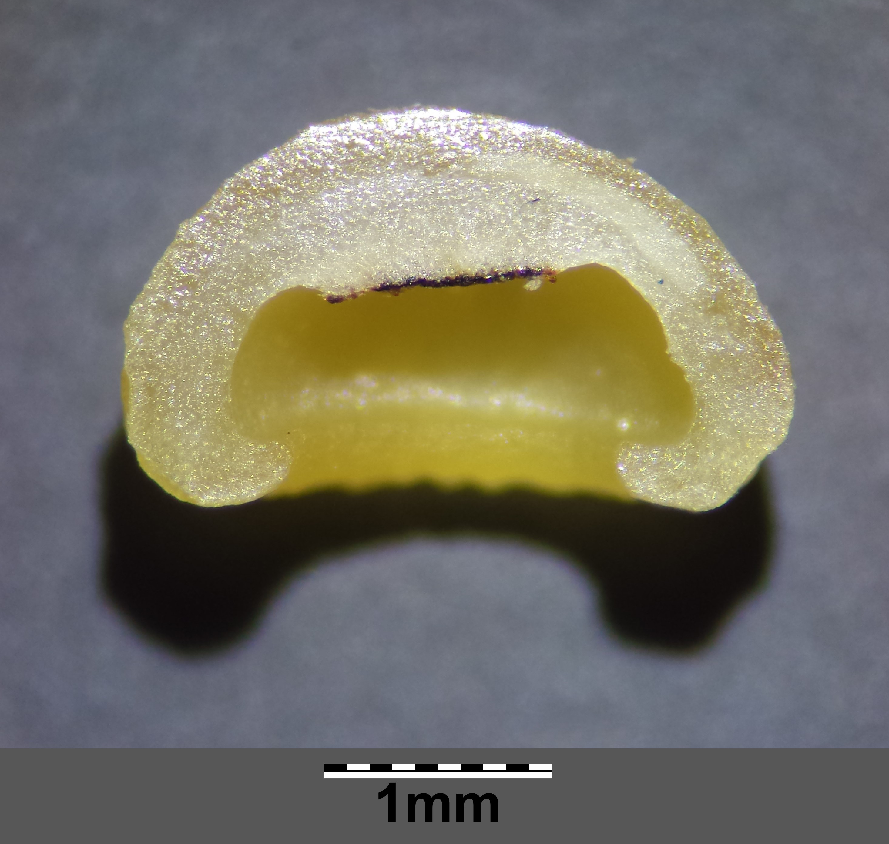 Seed cut through Taxonym: Veronica hederifolia s. str. ss Fischer et al. EfÖLS 2008 ISBN 978-3-85474-187-9 Location: near Niederhollabrunn, district Korneuburg, Lower Austria - ca. 350 m a.s.l. (leg.: 2016-05-15) Habitat: border of a field